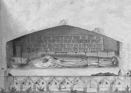 Bishop Henry de Lichton's Monument, St Machar's Cathedral: funeral effigy of Henry de Lichton, Bishop of Aberdeen (1422-40)